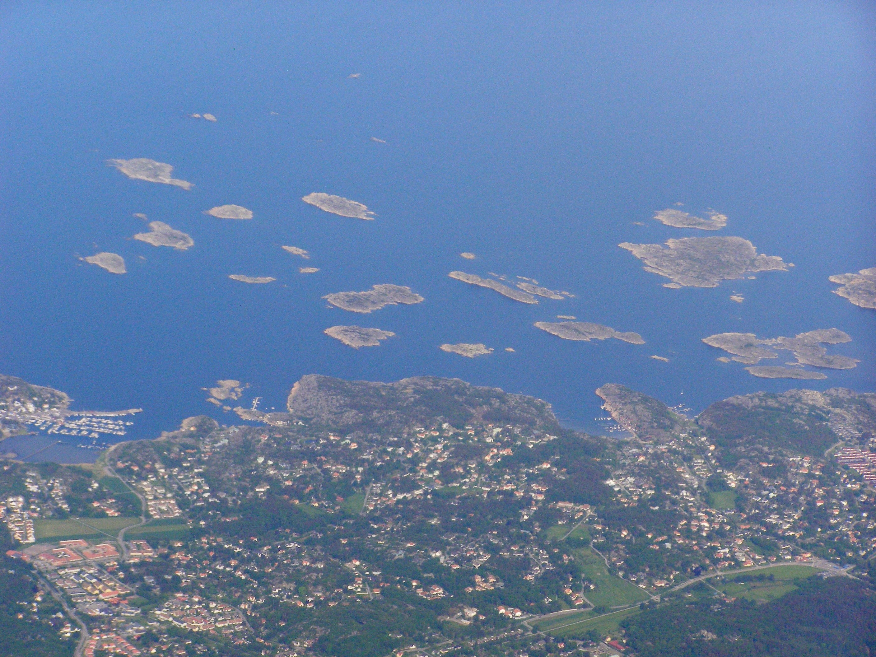 Kattegat coast of Sweden (near Billdal)